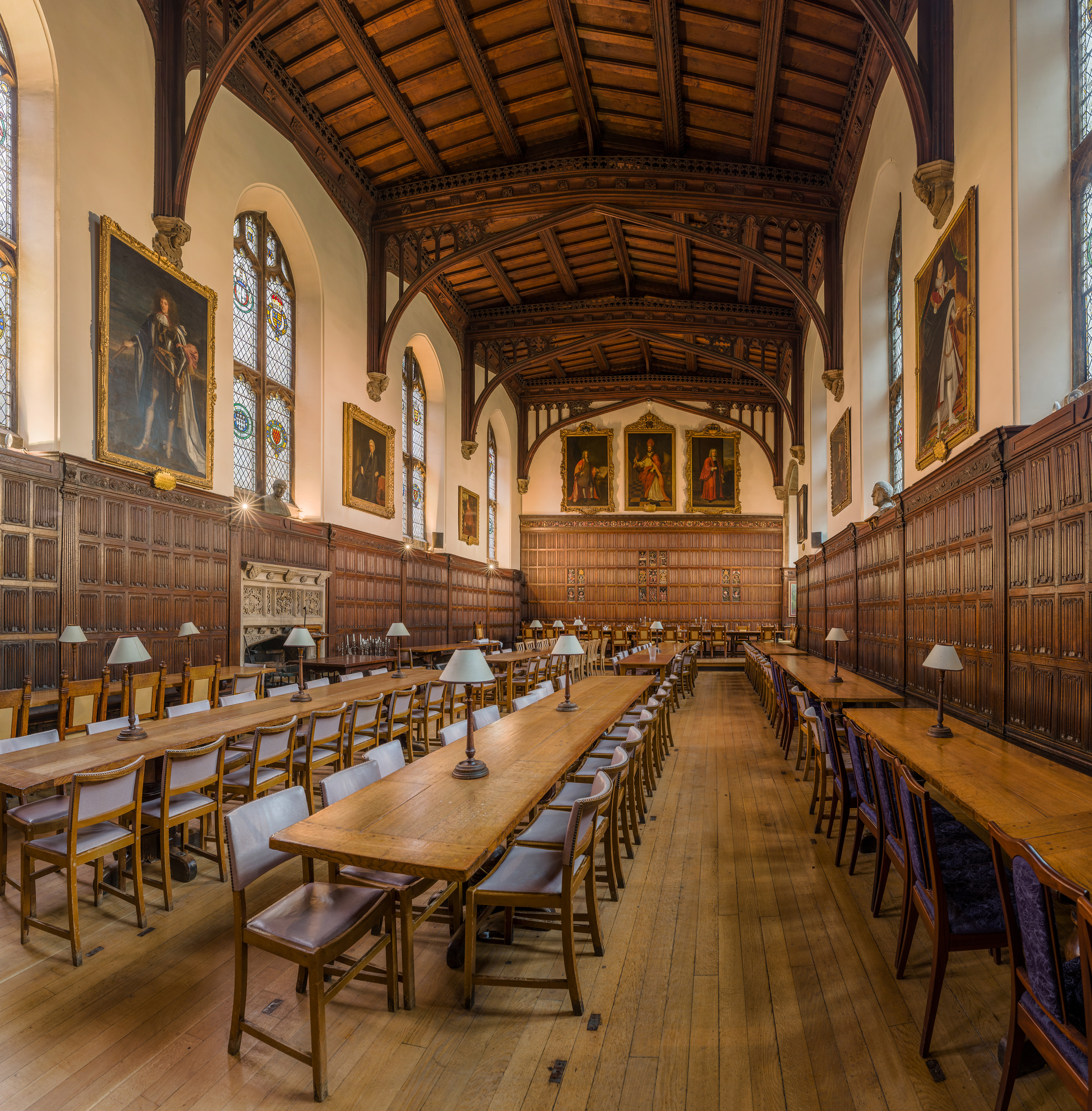 The Dining Hall of Magdalen College, Oxford, England.